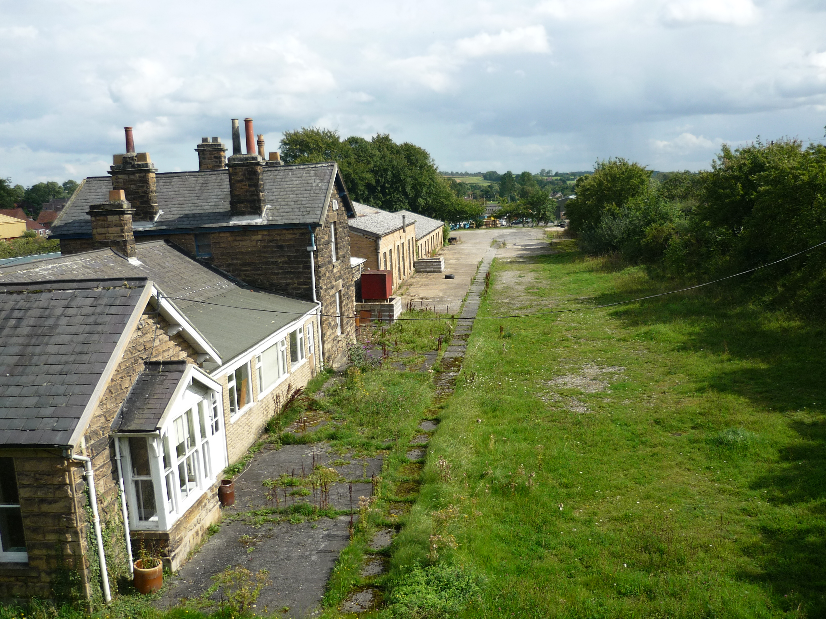 This is the former 'Kirbymoorside' station. The town's actual name is Kirkbymoorside. The railway line (known as the "Gilling & Pickering") was closed down (and all track lifted) in 1964.